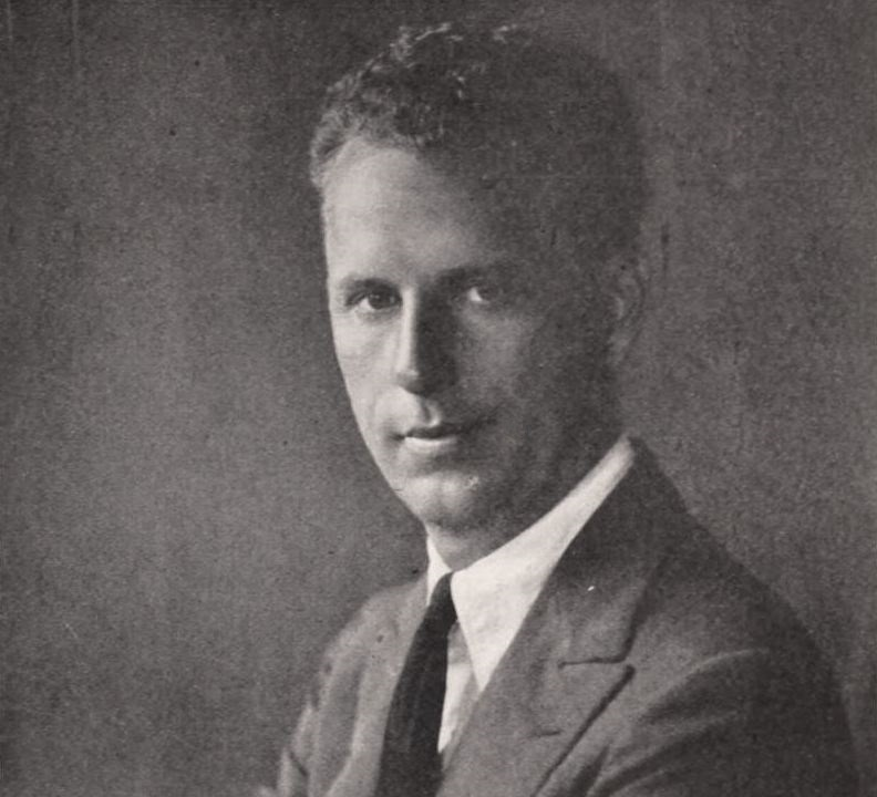 Director Ralph Ince, on page 119 of the December 24, 1921 Exhibitors Herald.